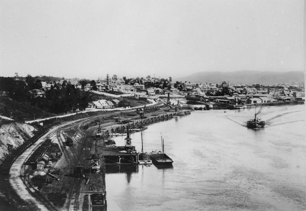 Suburb of South Brisbane viewed from River Terrace, Brisbane, ca. 1895. Looking down to the South Brisbane Coal Wharves to the left of the photograph.